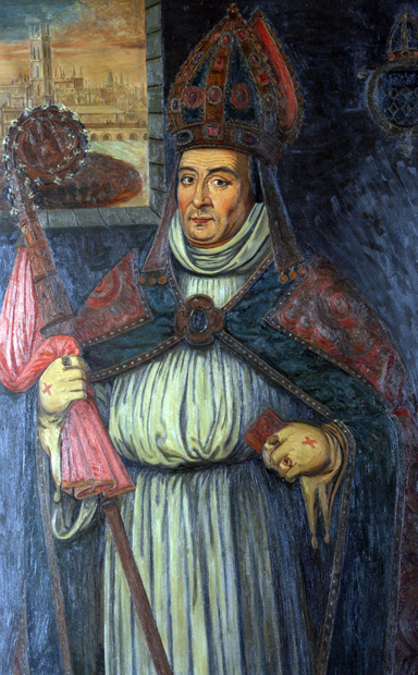 William Waynflete (c1398-1486)